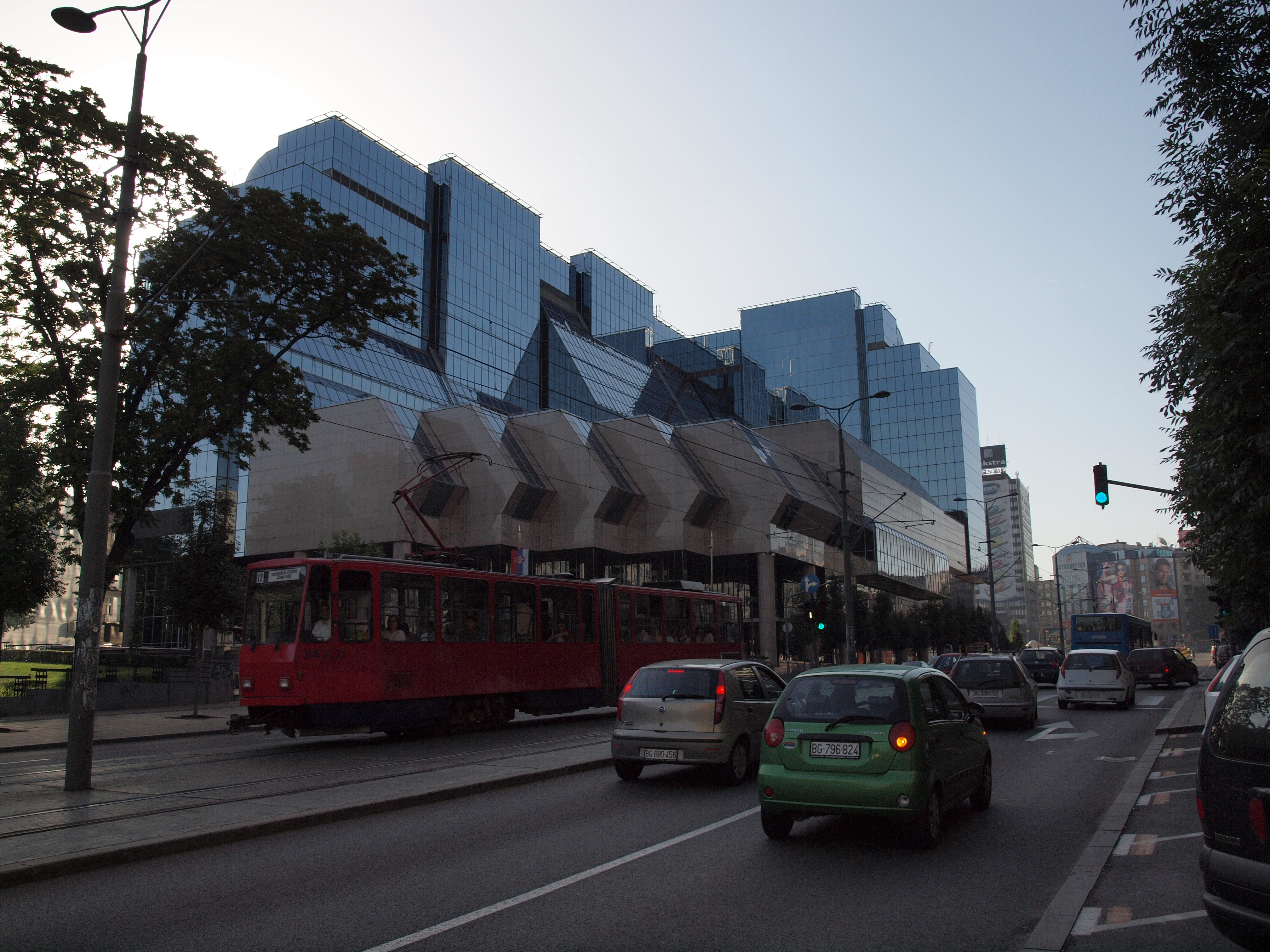 Nemanja street, National bank of serbia